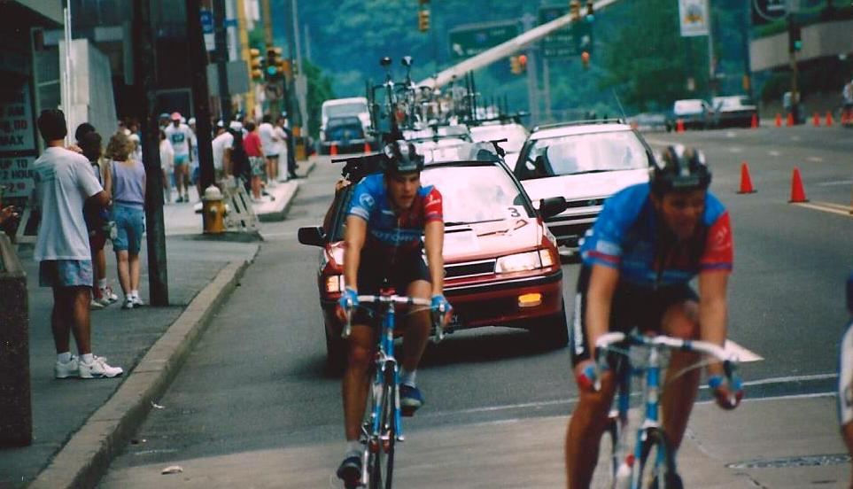 Frankie Andreu and Ron Kiefel (l-r) racing for Motorola Cycling Team at the 1991 Thrift Drug Classic in Pittsburgh, PA (USA)